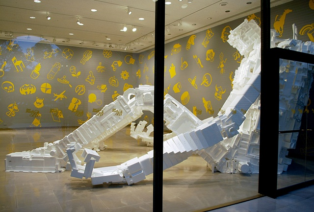 The installation "too much" by Michael Salter, giant styrobot seen from outside the glass wall of the gallery. Solo exhibition at Rice University Art Gallery, 6 November - 14 December 2008.